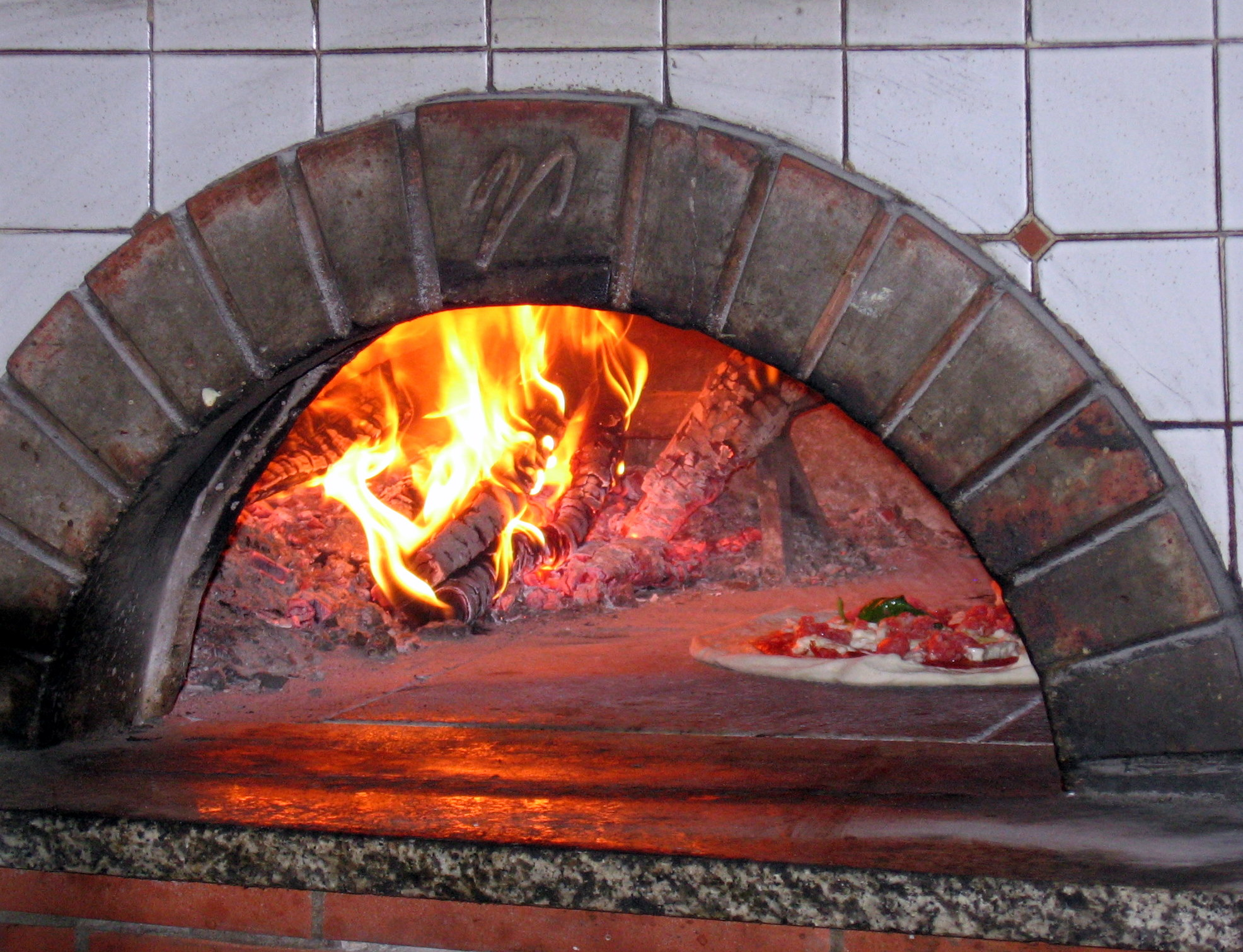 A pizza being cooked in a traditional fire oven, at the restaurant il Pizzaiuolo in Florence, Italy / EU.